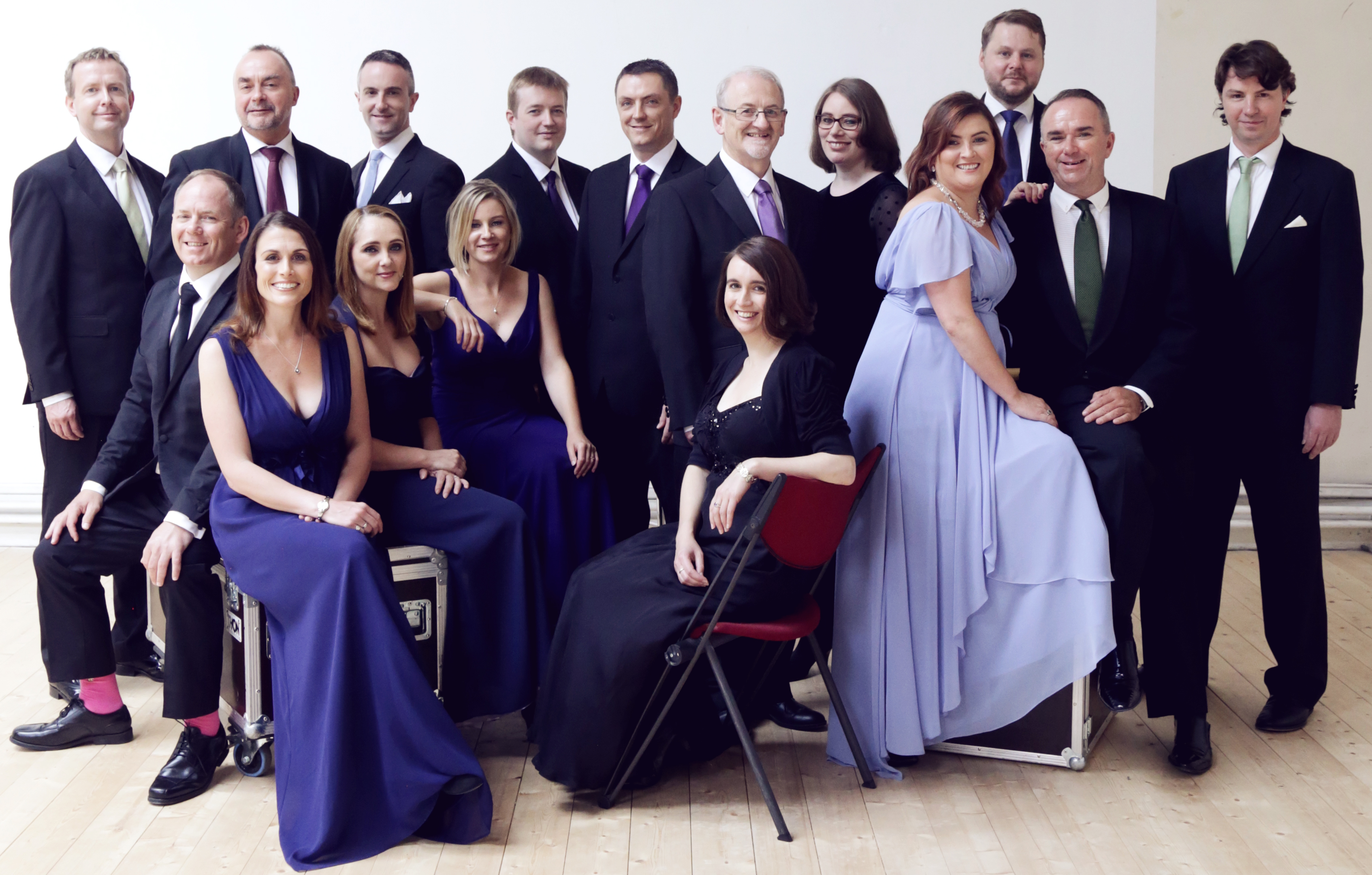 Chamber Choir Ireland. Fran Marshall Photography